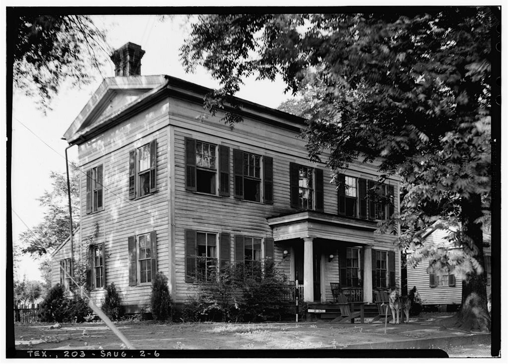 Matthew Cartwright House, San Augustine, Texas. Listed on the national Register of Historic Places. Historic American Buildings Survey—HABS image.